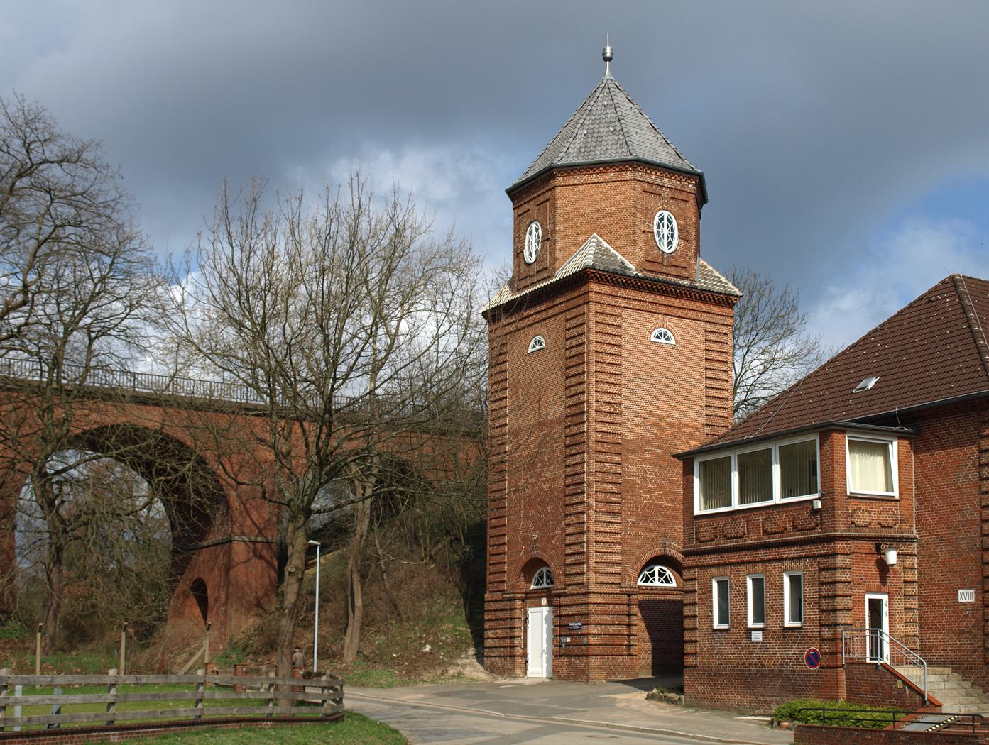 Rendsburg, Schleswig-Holstein (Germany), Water tower Saatsee-Wharf , photo 2011